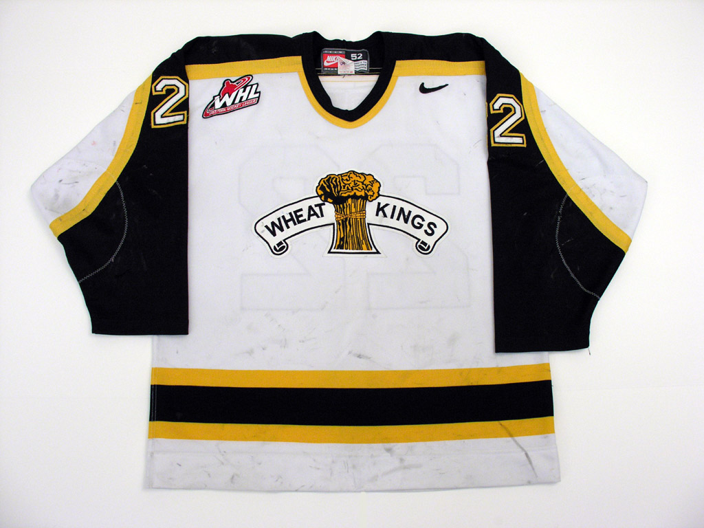 This is the home jersey of Jordin Tootoo. Crest, numbers, and patches are stiched. Acquired directly fromt he Brandon Wheat Kings